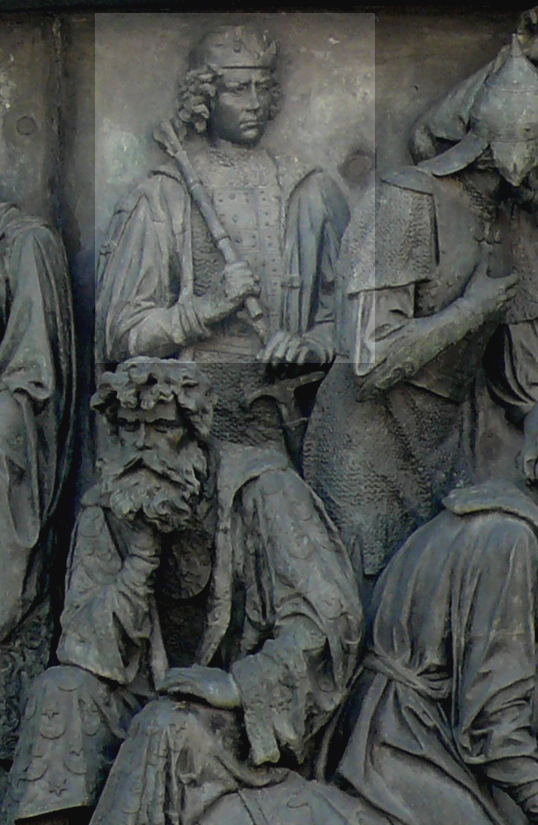 Mikhail Skopin-Shuisky on the Monument «Millennium of Russia» in Veliky Novgorod